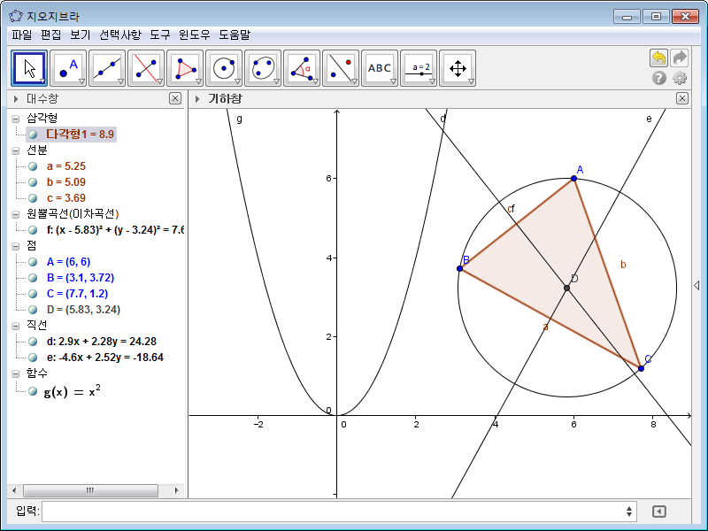 GeoGebra 4.4 Korean version picture